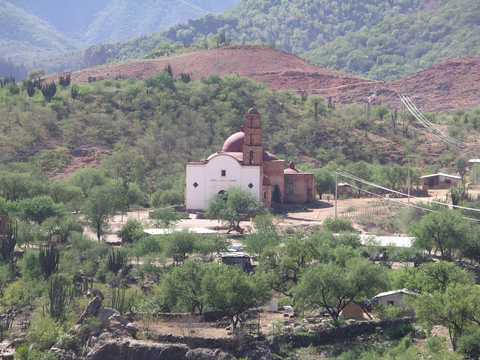 The Satevo Mission near Batopilas, often called the "Lost Mission."